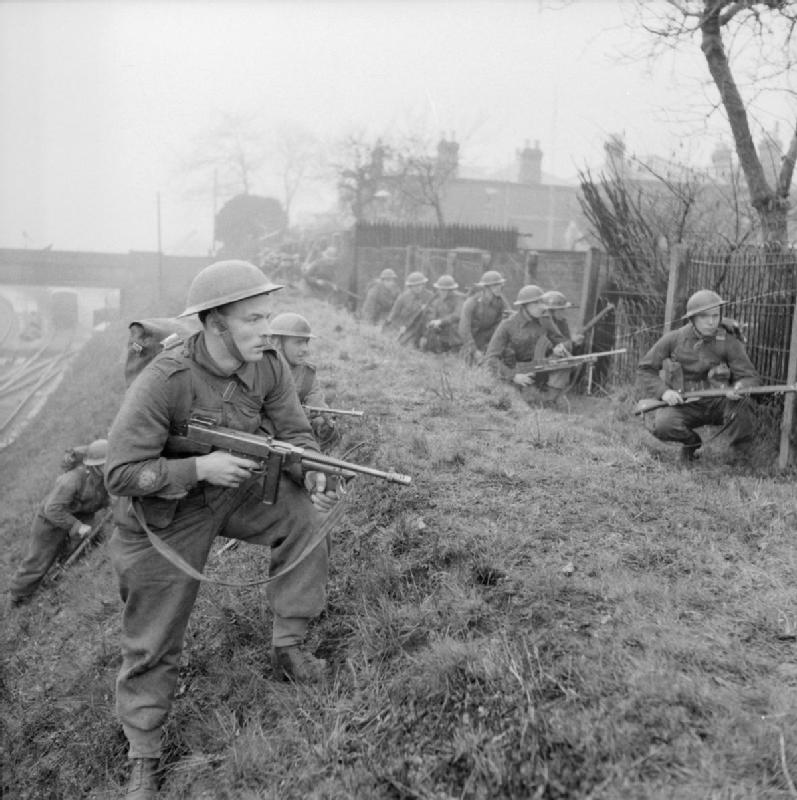 The British Army in the United Kingdom 1939-45 Infantry training at 47th Division School of Battle Drill at Lymington near Southampton, 11 March 1942. The troops are seen advancing between the backs of houses and a railway line.